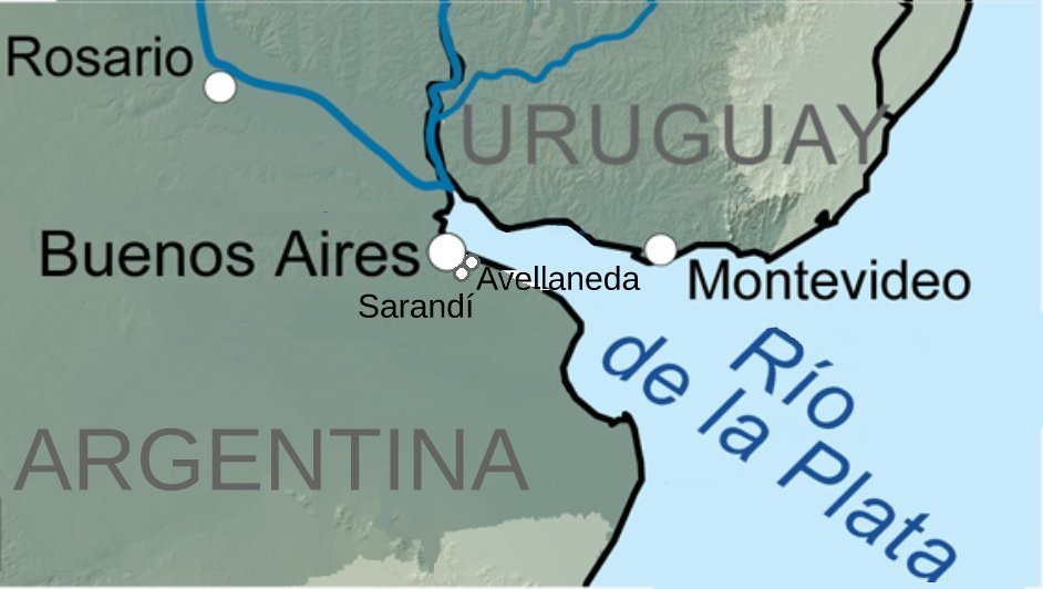 Tango origins. Cities where took place the process of tango creation. 1860-1900 Argentina: Buenos Aires, Avellaneda, Sarandí and Rosario. Uruguay: Montevideo.